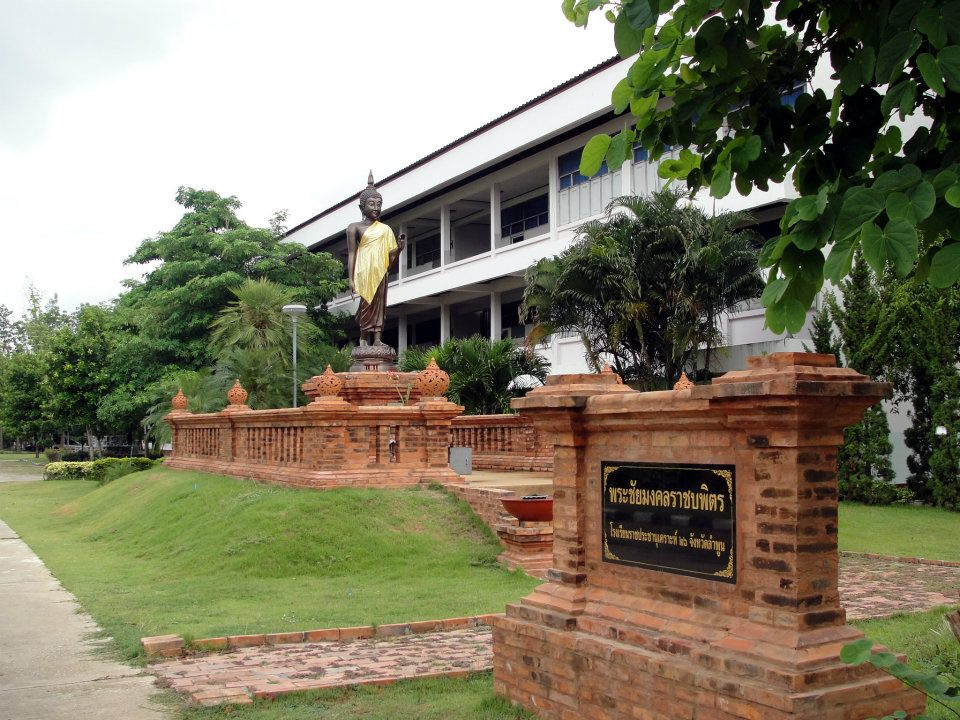 Rajaprajanugroh 26 School Lamphun